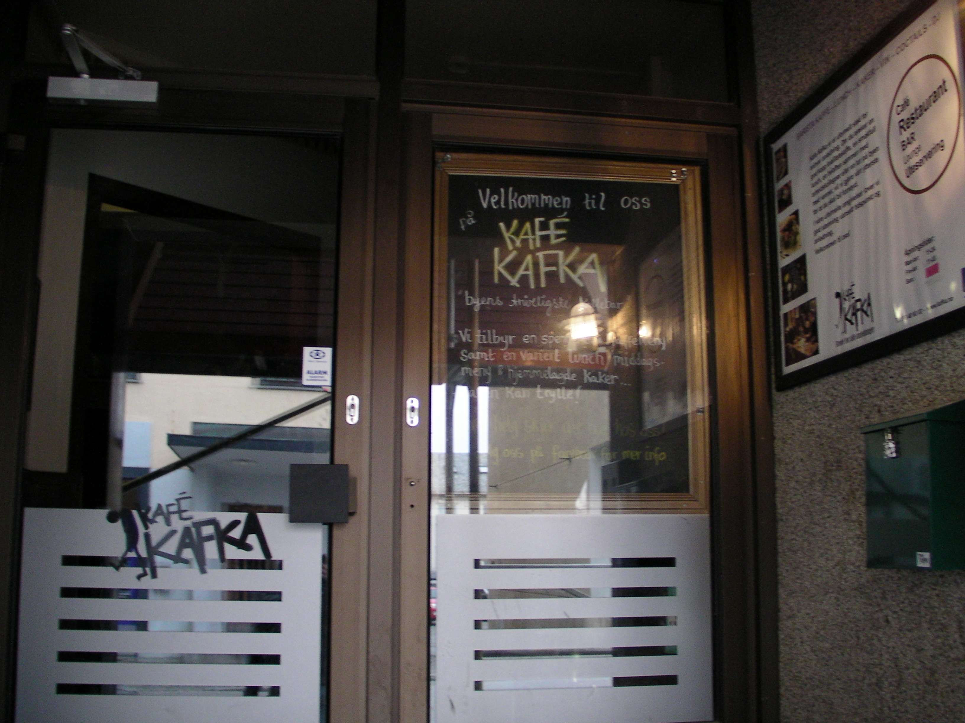 Kafé Kafka Bodo